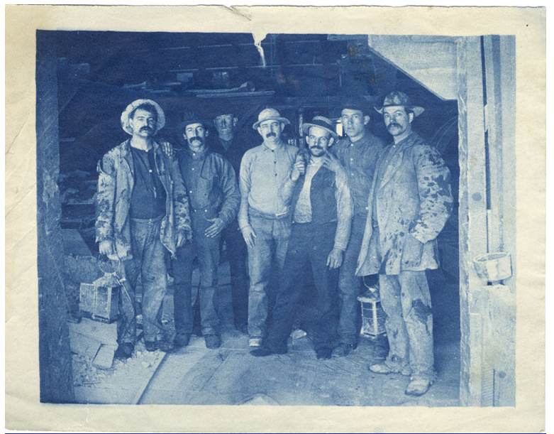 Title: "Seven Comstock miners." Image Date: Ca. 1880s Summary/Description: Caption on image: "To Labor is to Pray." Frances S. Osgood. Photograph of seven men, Comstock miners, two holding lanterns; from the Alfred Doten collection; cyanotype Subject: Miners-Nevada-Comstock Mines and mineral resources-Nevada-Comstock Location: Comstock (historical) (Nev.) Storey County, Nevada CollectionSpecial Collections Photos Image NumberUNRS-P0192 Source:Special Collections Department, University of Nevada, Reno Library URL